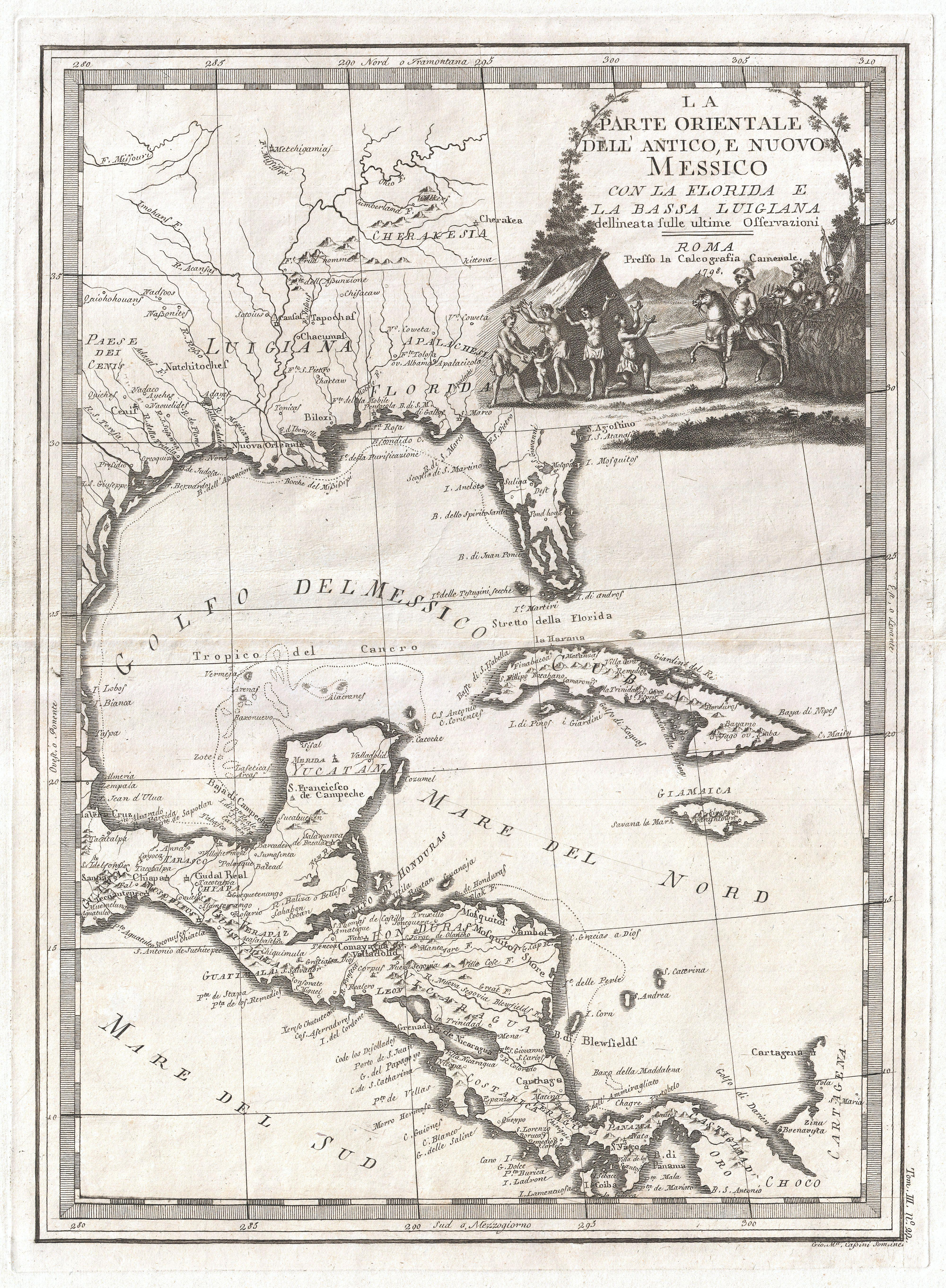 This is a stunningly rendered 1798 map of Florida, the Gulf of Mexico, Louisiana, and Central America by the Italian cartographer Giovanni Maria Cassini. While visually alluring, this map is cartographically primitive. Florida is here represented as an archipelago. Cassini also fails to attach the Mississippi River to the Missouri. He does however make some effort at naming a number of American Indian tribes in the Mississippi Valley and Texas, including the Cherokee (Cherakesia), Chacumal, the Apalache, and the Cenis. In the upper right quadrant there is an attractive decorative cartouche depicting a Spanish conquistador army entering an American Indian village. The naked villagers, including children, are clearly distraught and fearful, imploring either the conquistadores, god, or both for mercy. Interpreting this cartouche one can easily read Cassini's harsh criticism of Spain's brutal colonial policy in the Americas. This map was published in Cassini's 1798 Nuovo Atlante Geografico Universale. This atlas was one of the last great decorative cartographic compilations of the 18th century and is exceptionally rare. Maps from this atlas with their modern cartouche work, distinctive engraving, rich dark impressions, and attractive border work are among the most desirable cartographic works of the period.